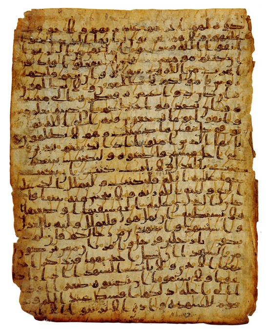 Manuscript on vellum, written in sepia-coloured Hijazi script. An Early Qur'anic Manuscript (1st century Hegira). From the last two words of verse 206 to the second fīhi in verse 217 of Sūrah al-Baqarah. Script: Hijazi. Location: The David Collection, Copenhagen.